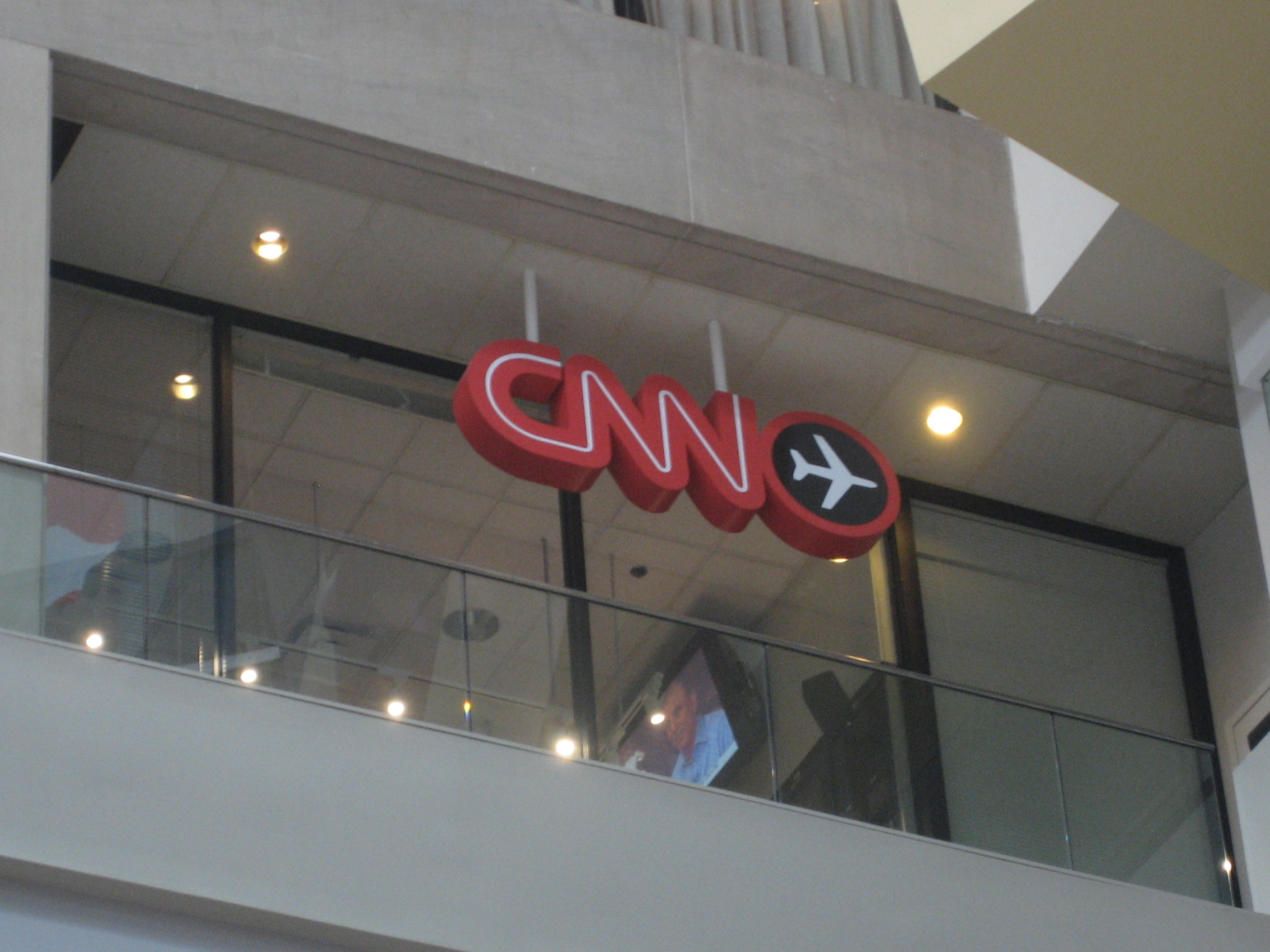 CNN Airporte Network offices at the CNN Center in Atlanta, GA. Photo: Chris Green